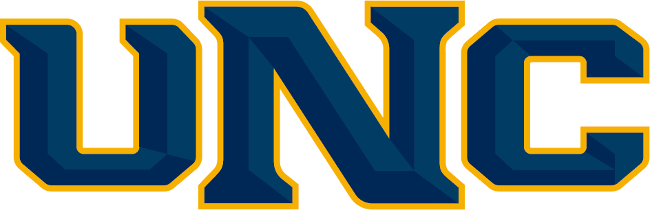 Script logo for athletics at the University of Northern Colorado, updated in 2015.